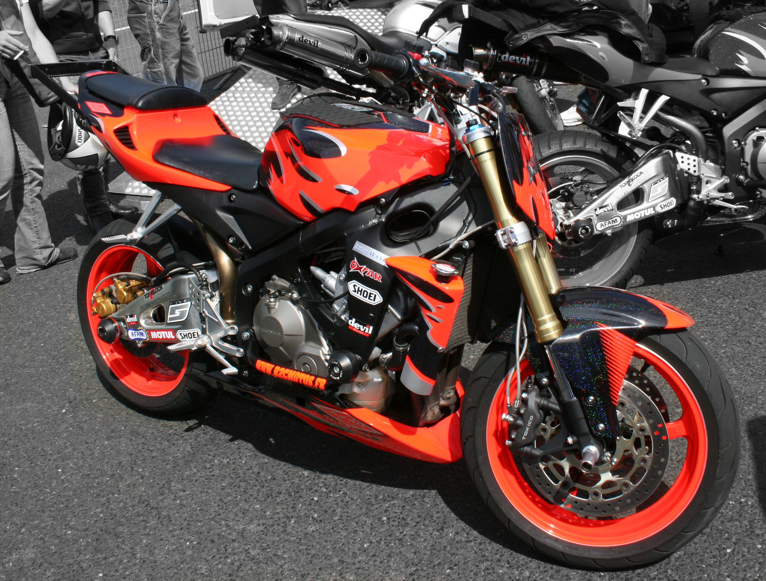 Honda Cbr stunt bike, during the Stunt Bike Show (Carole Racetrack, France)